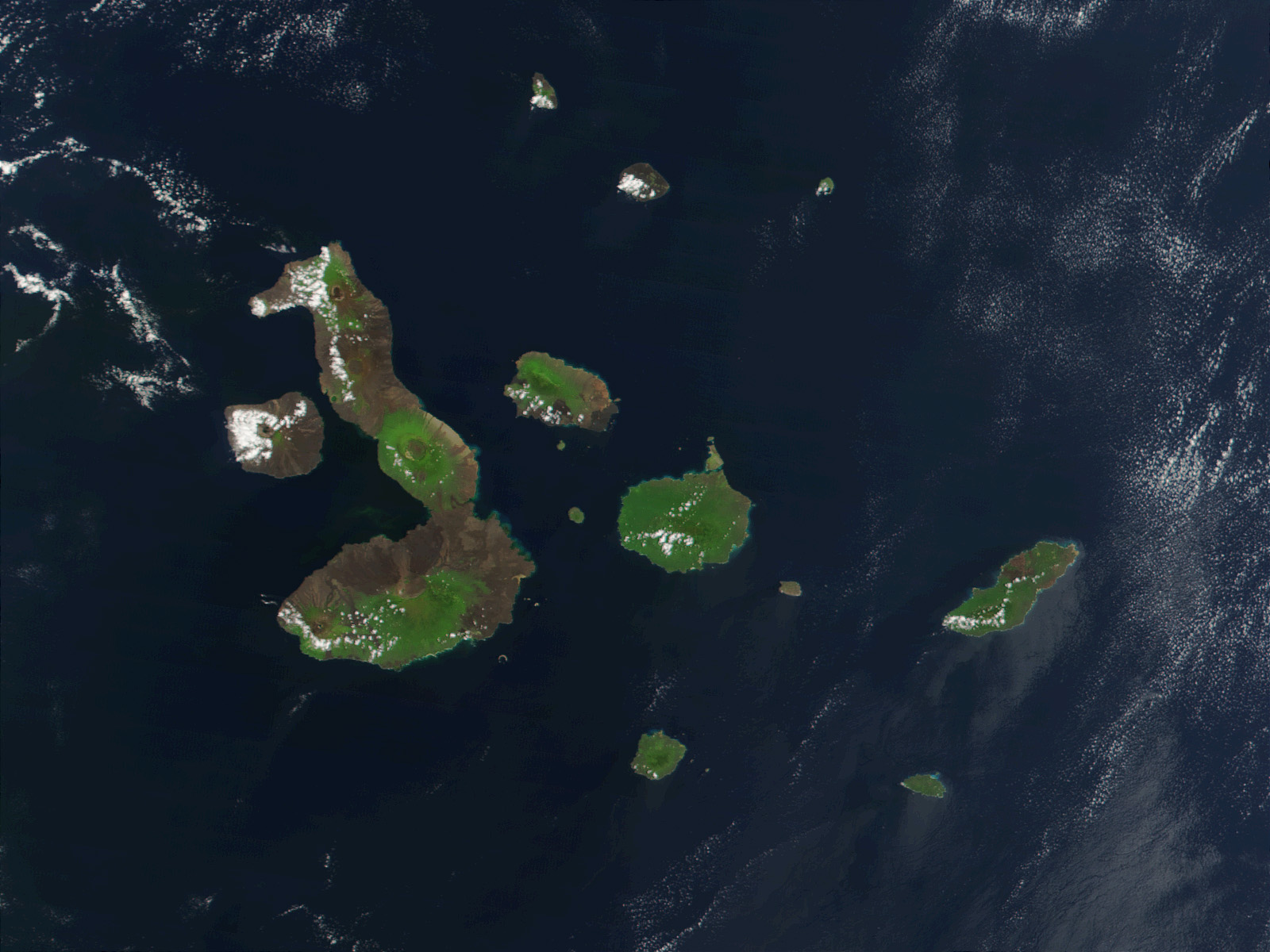 This true-color image of the Galapagos Islands was acquired on March 12, 2002, by the Moderate-resolution Imaging Spectroradiometer (MODIS), flying aboard NASA's Terra satellite. The Galapagos Islands, which are part of Ecuador, sit in the Pacific Ocean about 1000 km (620 miles) west of South America. As the three craters on the largest island (Isabela Island) suggest, the archipelago was created by volcanic eruptions, which took place millions of years ago.